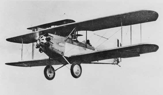 Catalog #: 00071203 Manufacturer: Spartan Designation: C-3